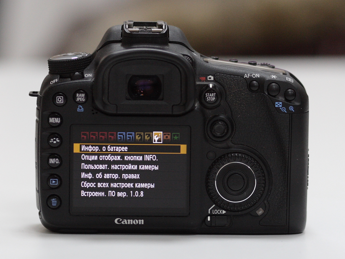 Canon EOS 7D, back view with display turned on.